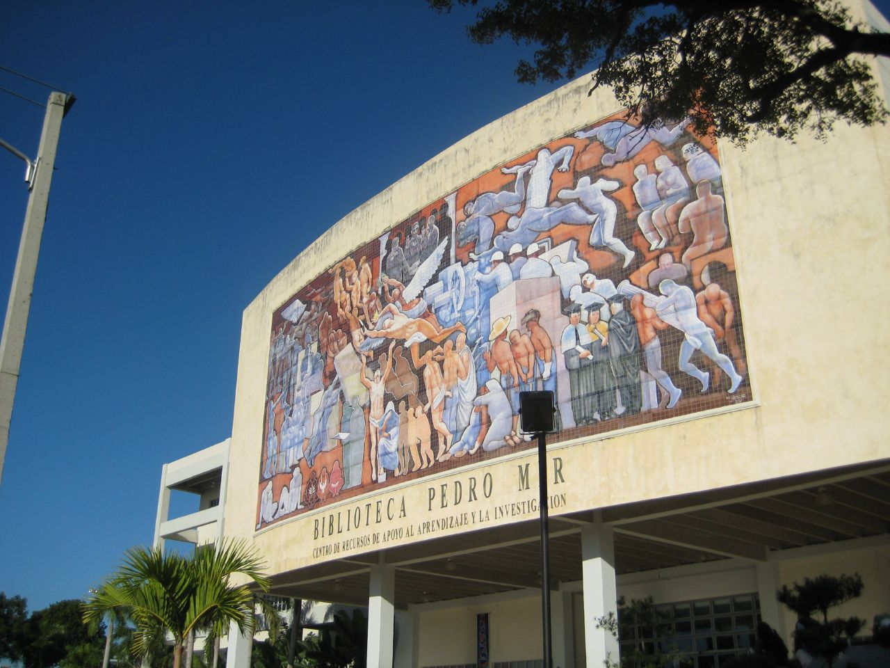 The Pedro Mir Library of the Autonomous University of Santo Domingo, Santo Domingo, Dominican Republic.